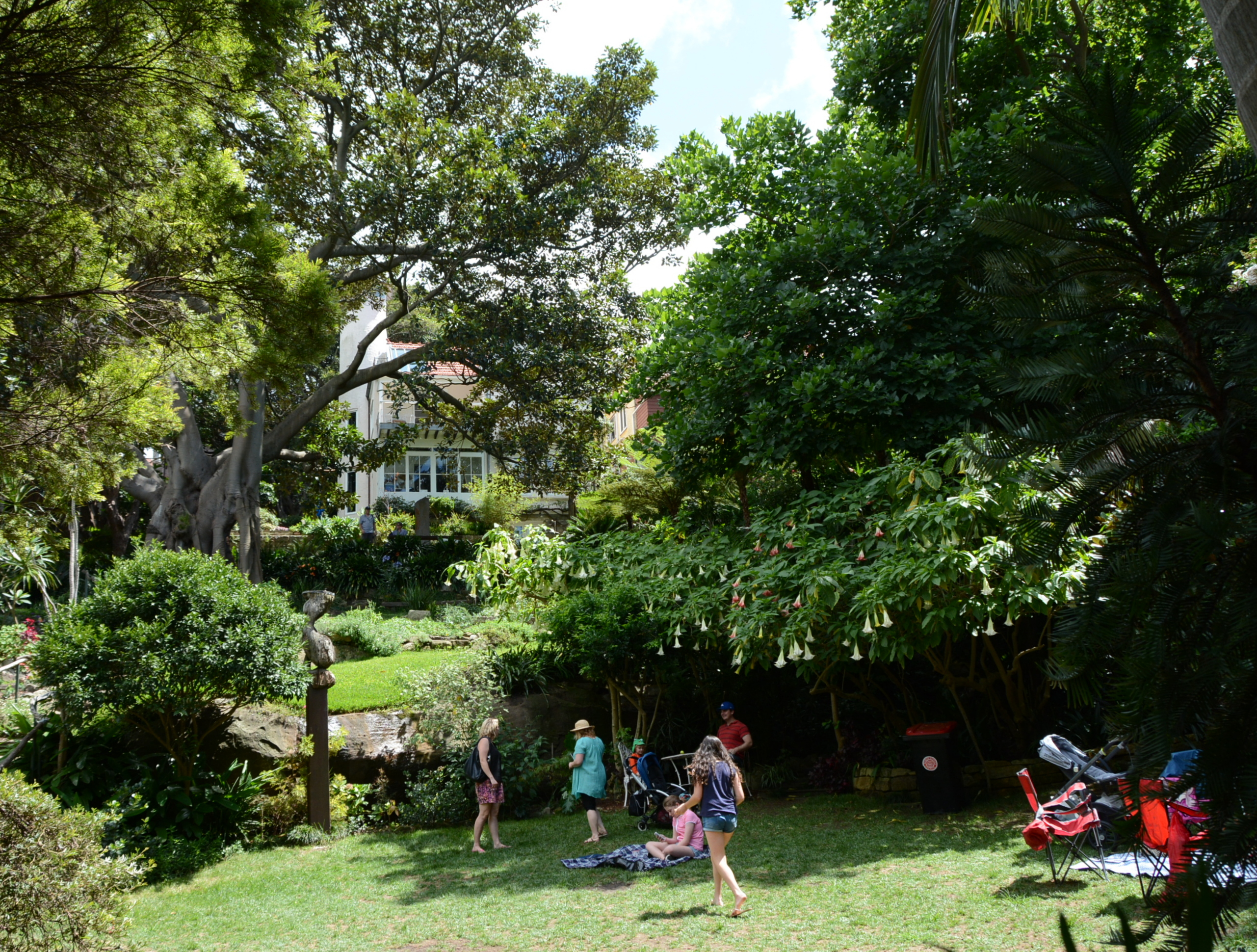 Wendy Whiteley's garden, Lavender Bay, Sydney